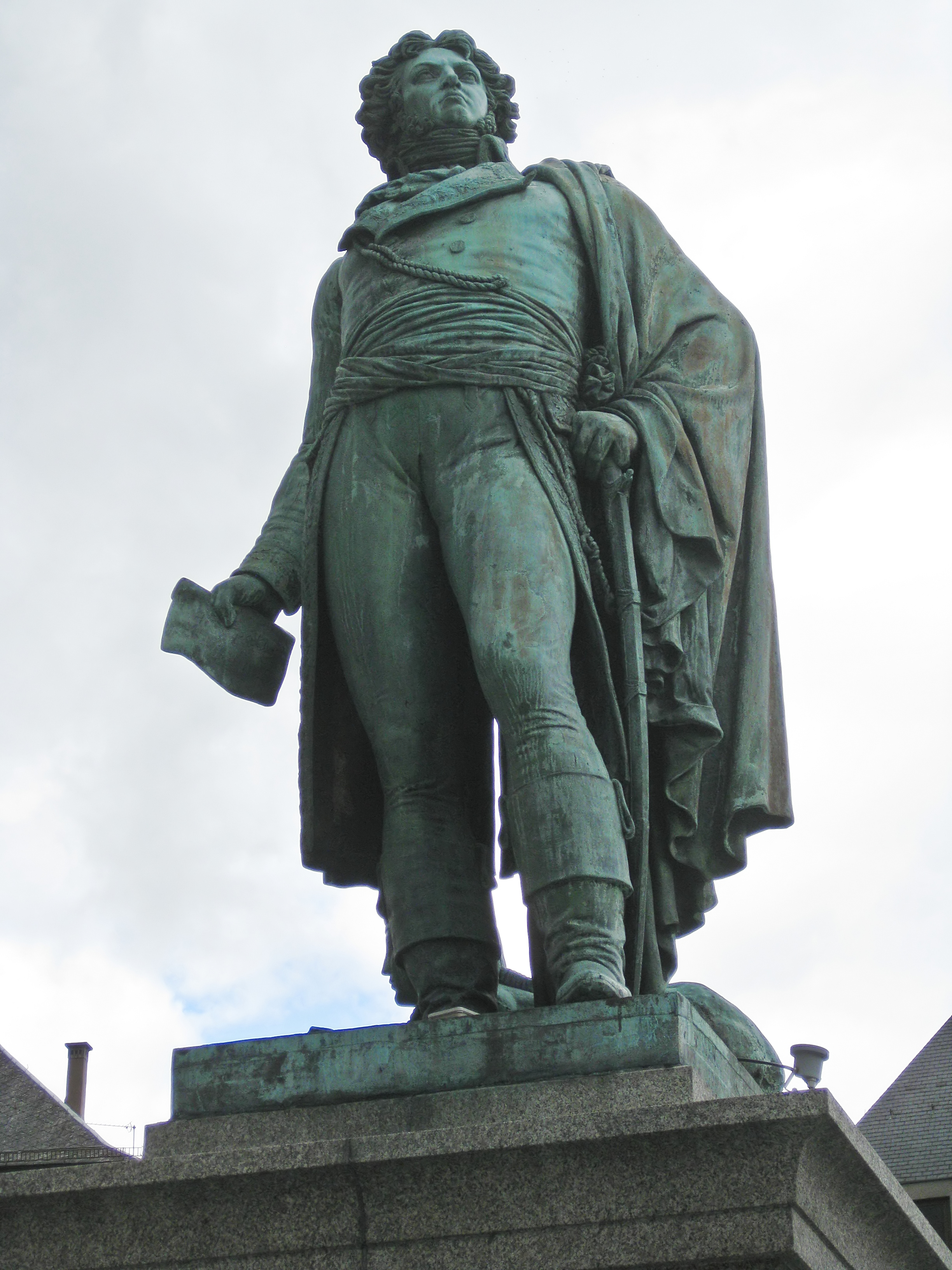 France, Alsace, Strasbourg, Place Kléber: statue of general Kléber (1753-1800); historical monument